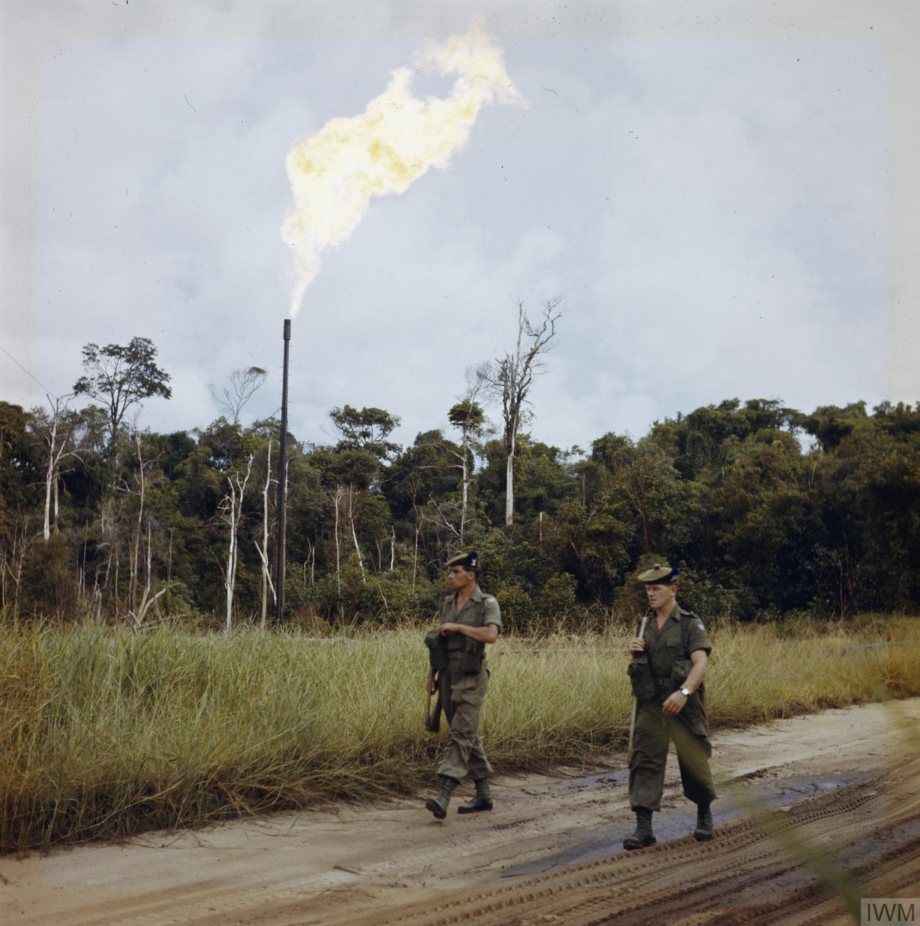 Two soldiers of the Queen's Own Highlanders on guard in the Seria oilfield. The troops were in Seria to rescue European hostages who had been held prisoner by rebels for three days in the local police station.